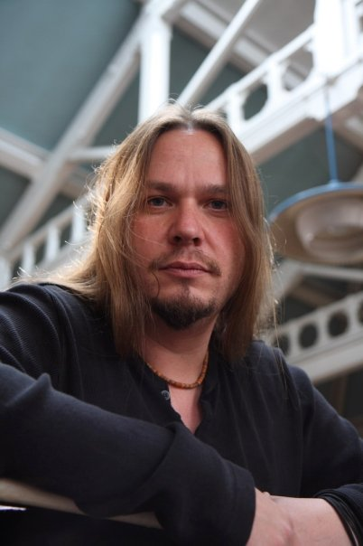 Mike Lehan